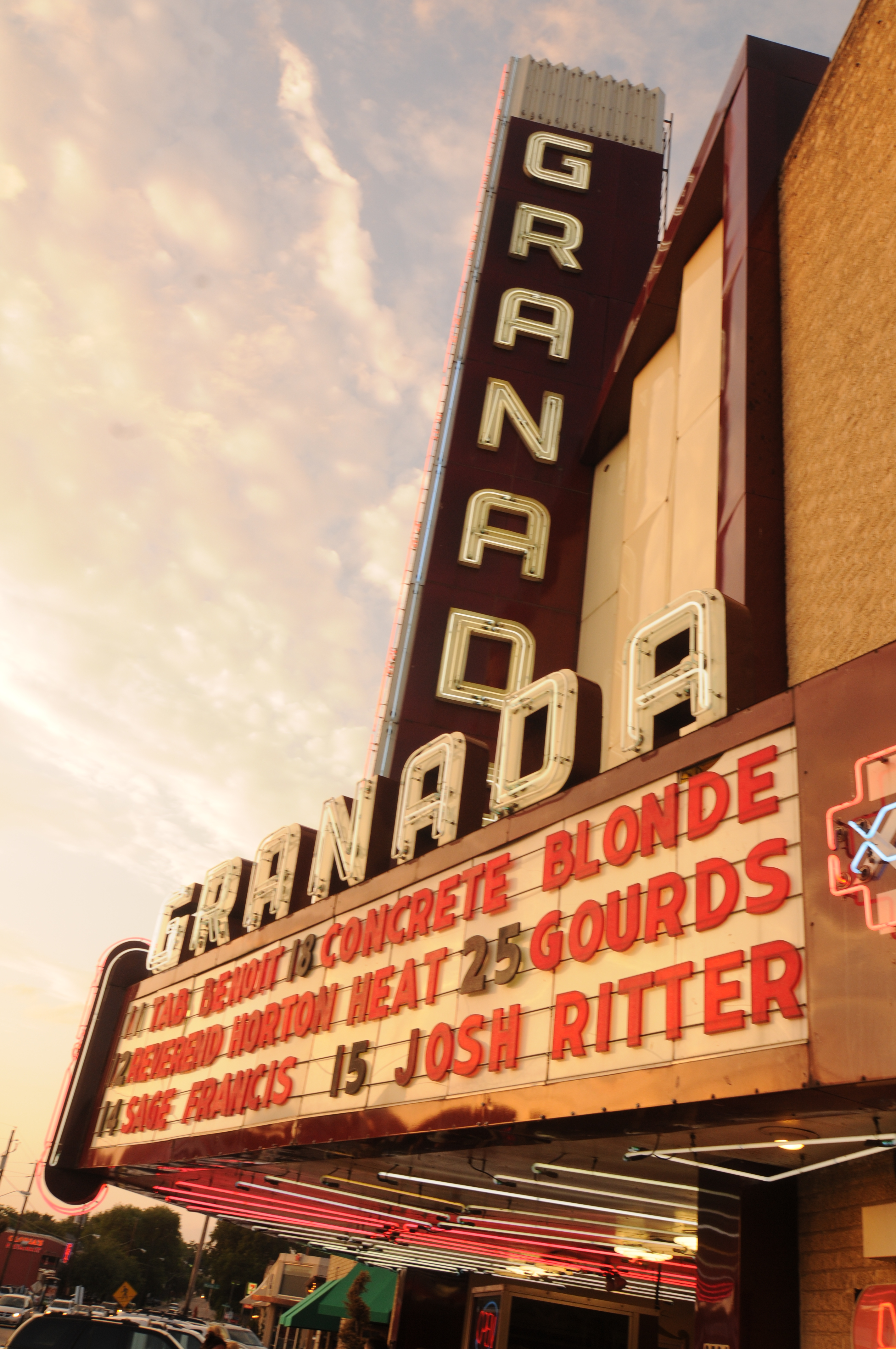 Marquee Day